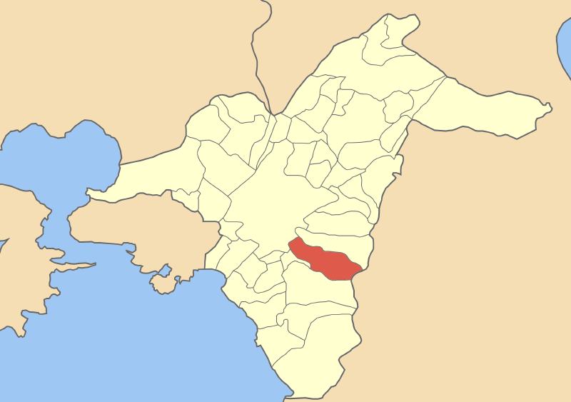 Locator map of Vyronas municipality (Δήμος Βύρωνος) in Athina Nomarchia (Νομαρχία Αθηνών) in Greece.